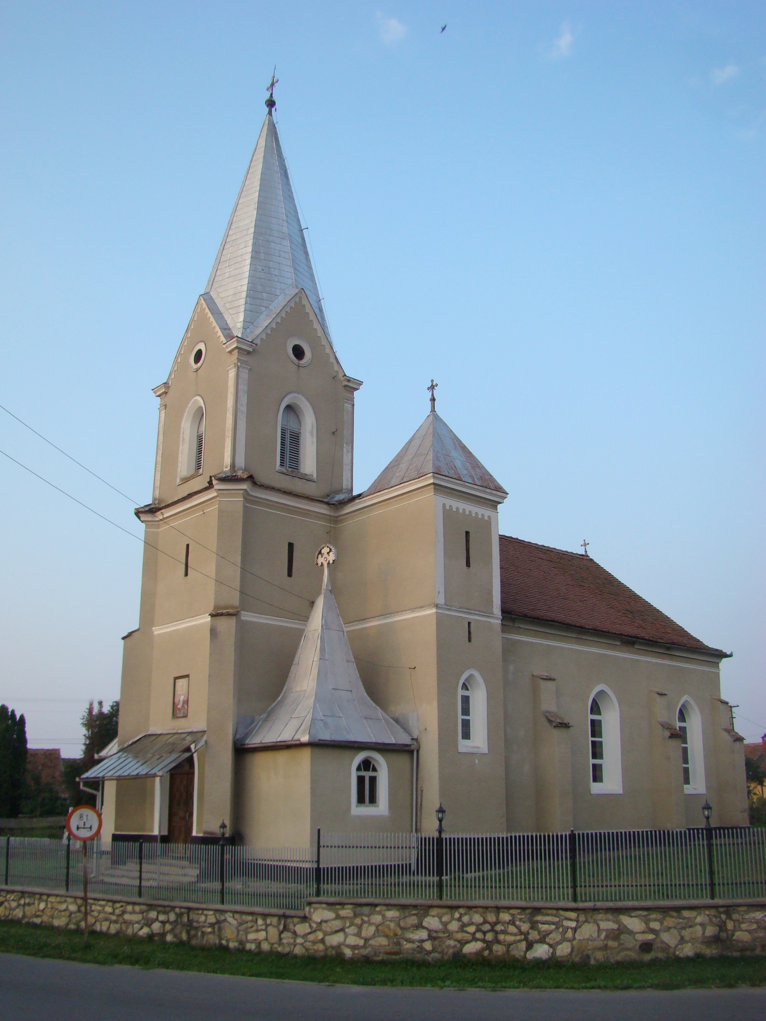 Porumbacu de Sus, Sibiu county, Romania